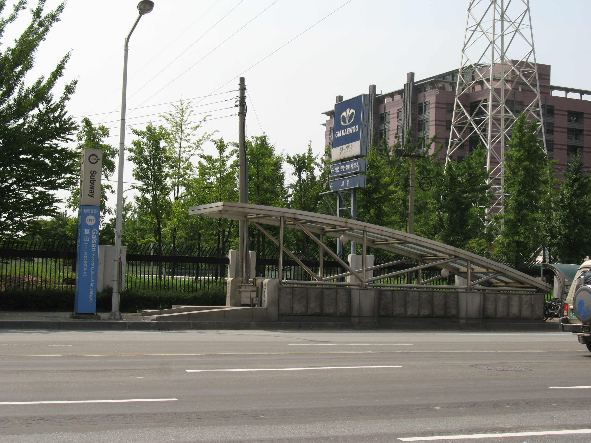 Incheon Subway Line 1 Galsan Station